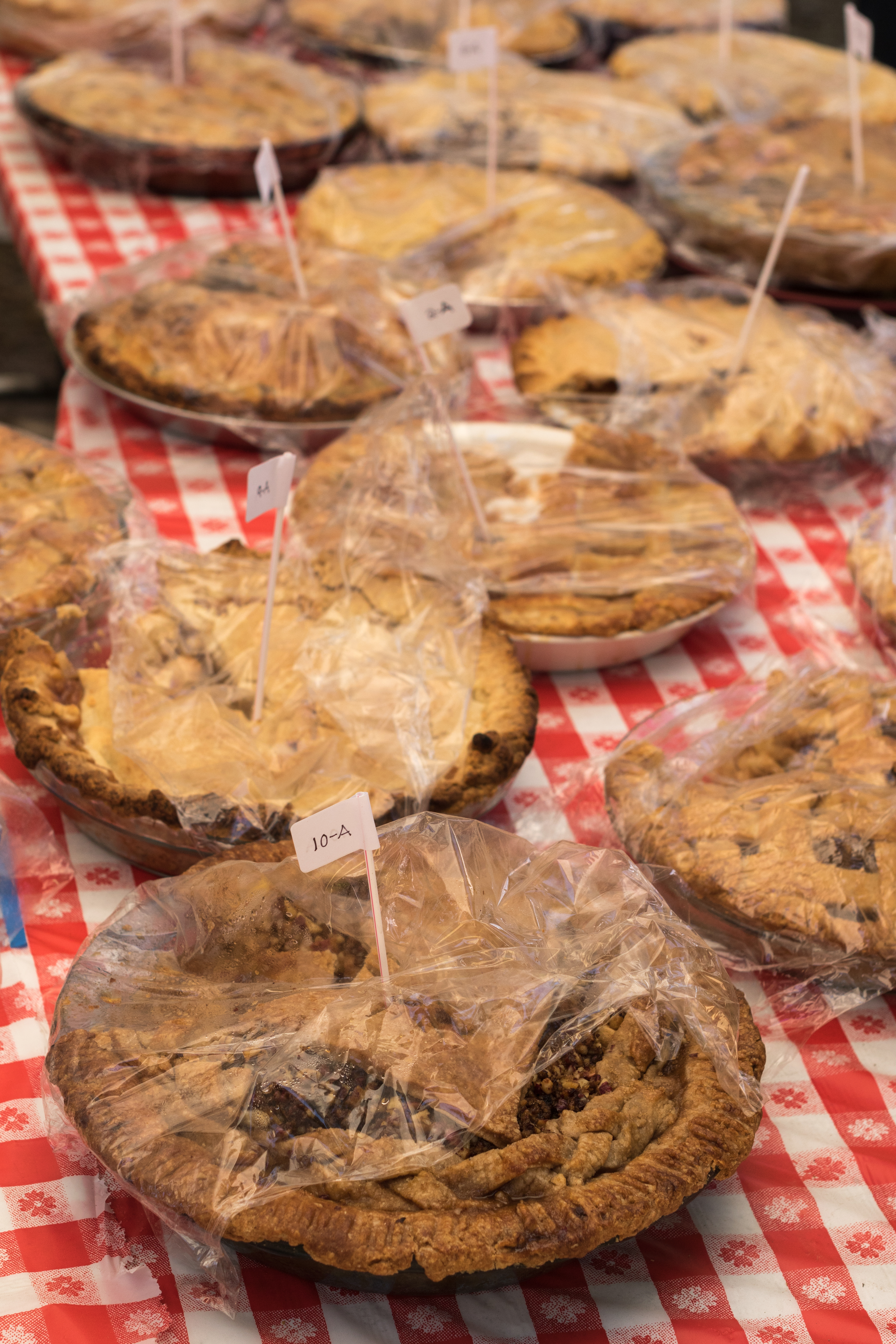 Gravenstein Apple Fair 2016 in Sebastopol, Sonoma County, California